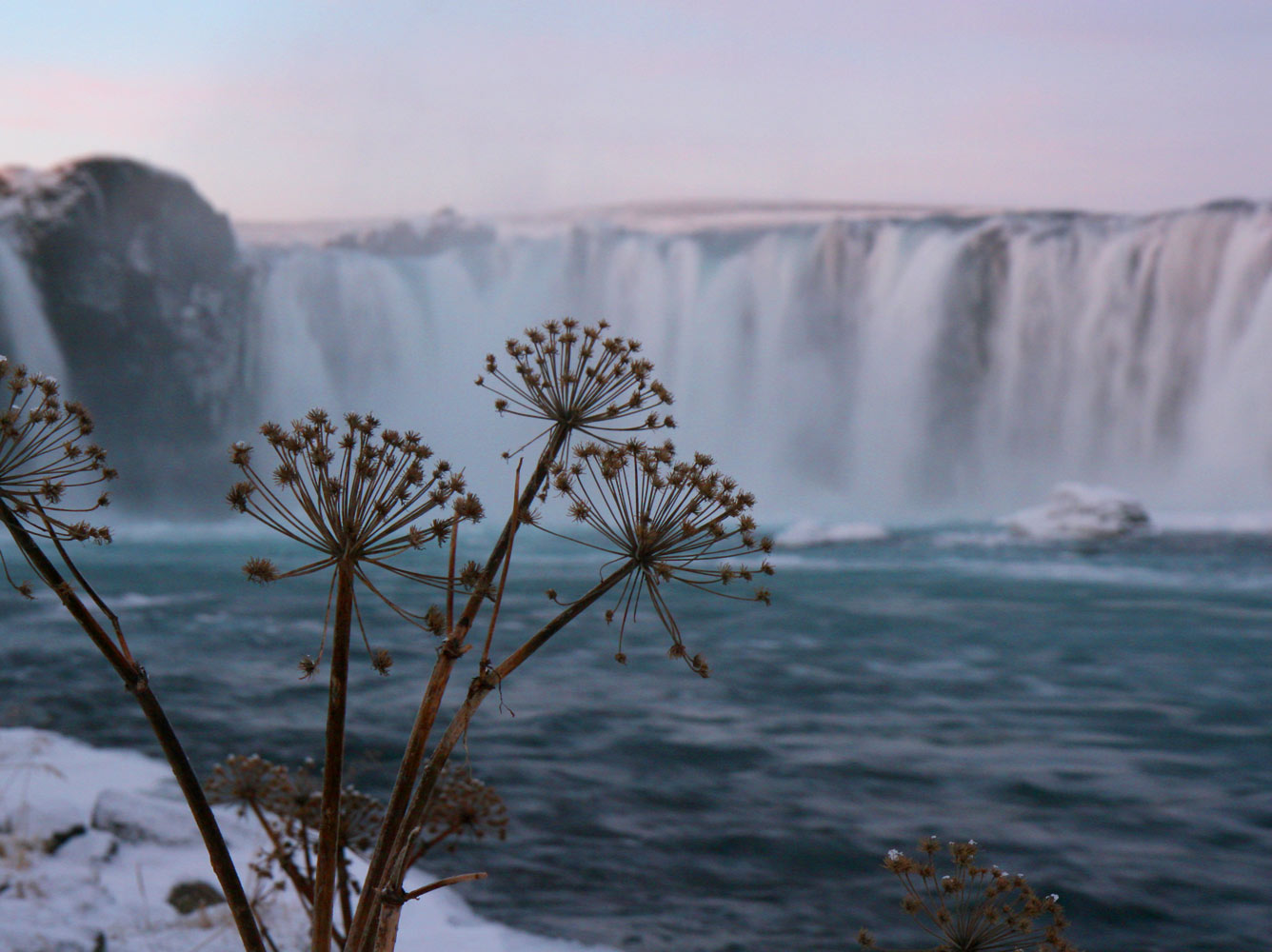 Dried valerian (Valeriana officinalis) [?] under Goðafoss, Iceland.